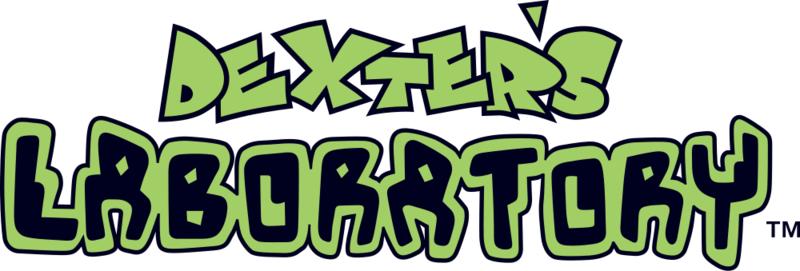 Dexter´s Laboratory logo